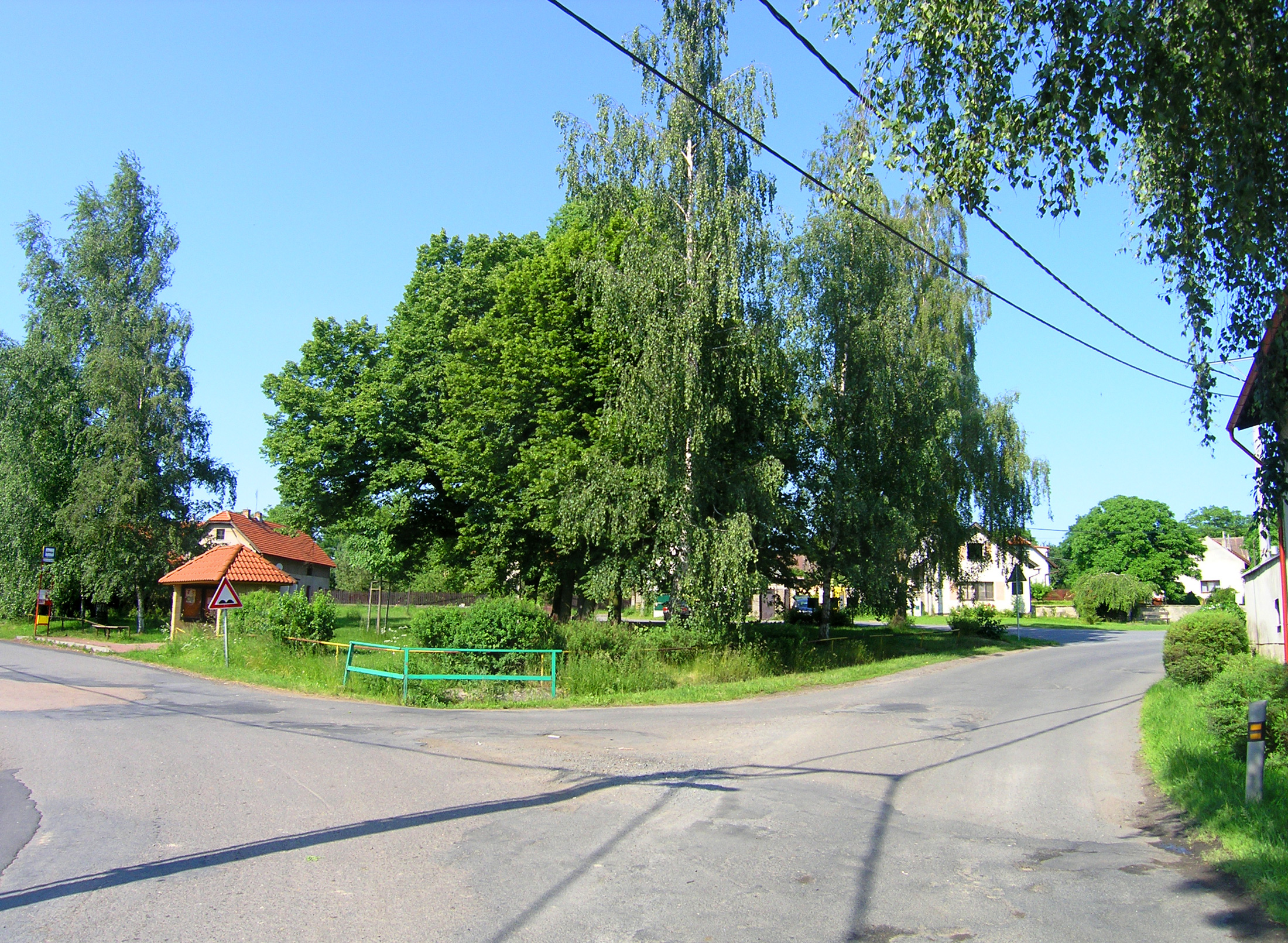 Common in Křížkový Újezdec, Czech Republic